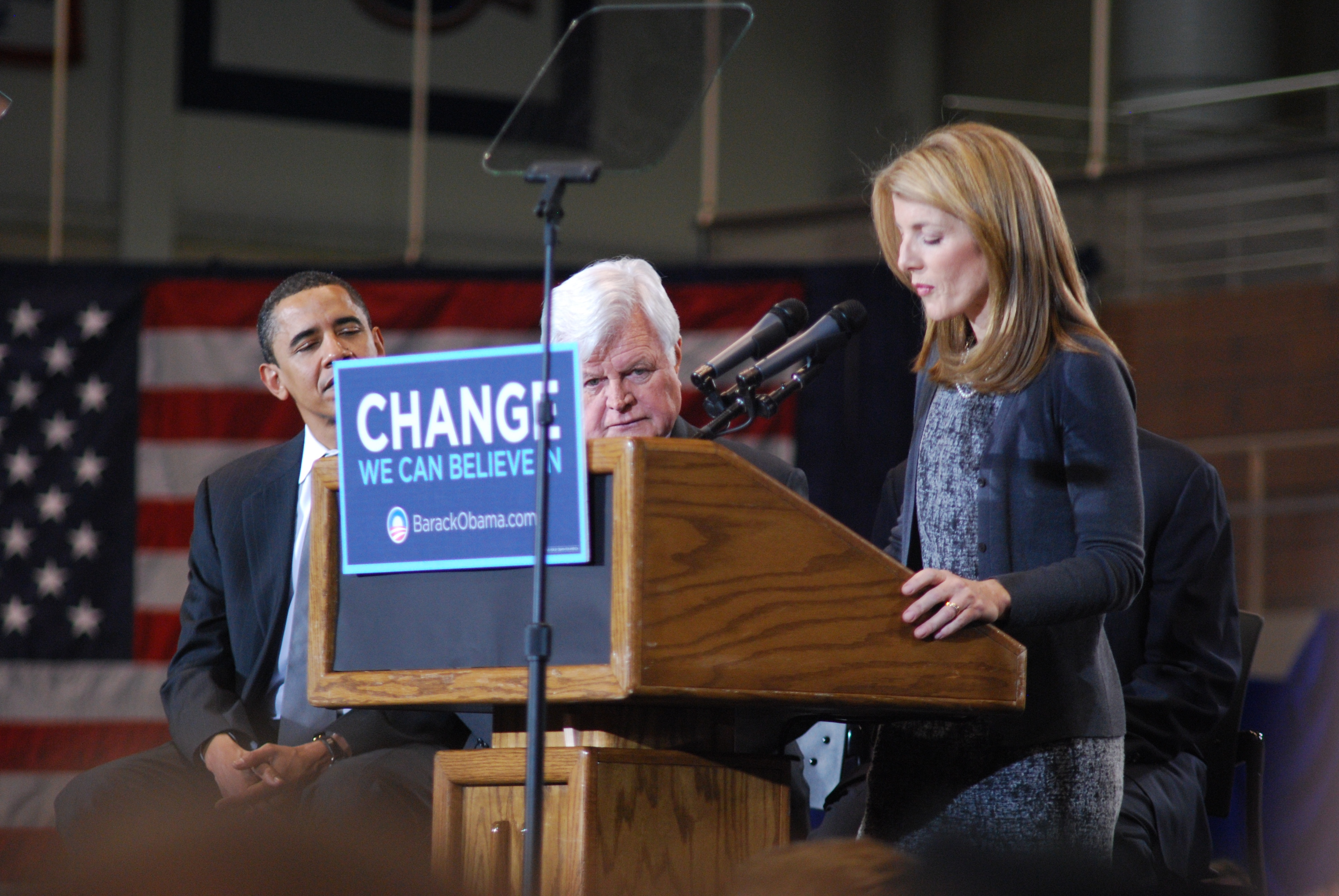 Caroline Kennedy, Ted Kennedy and Barack Obama